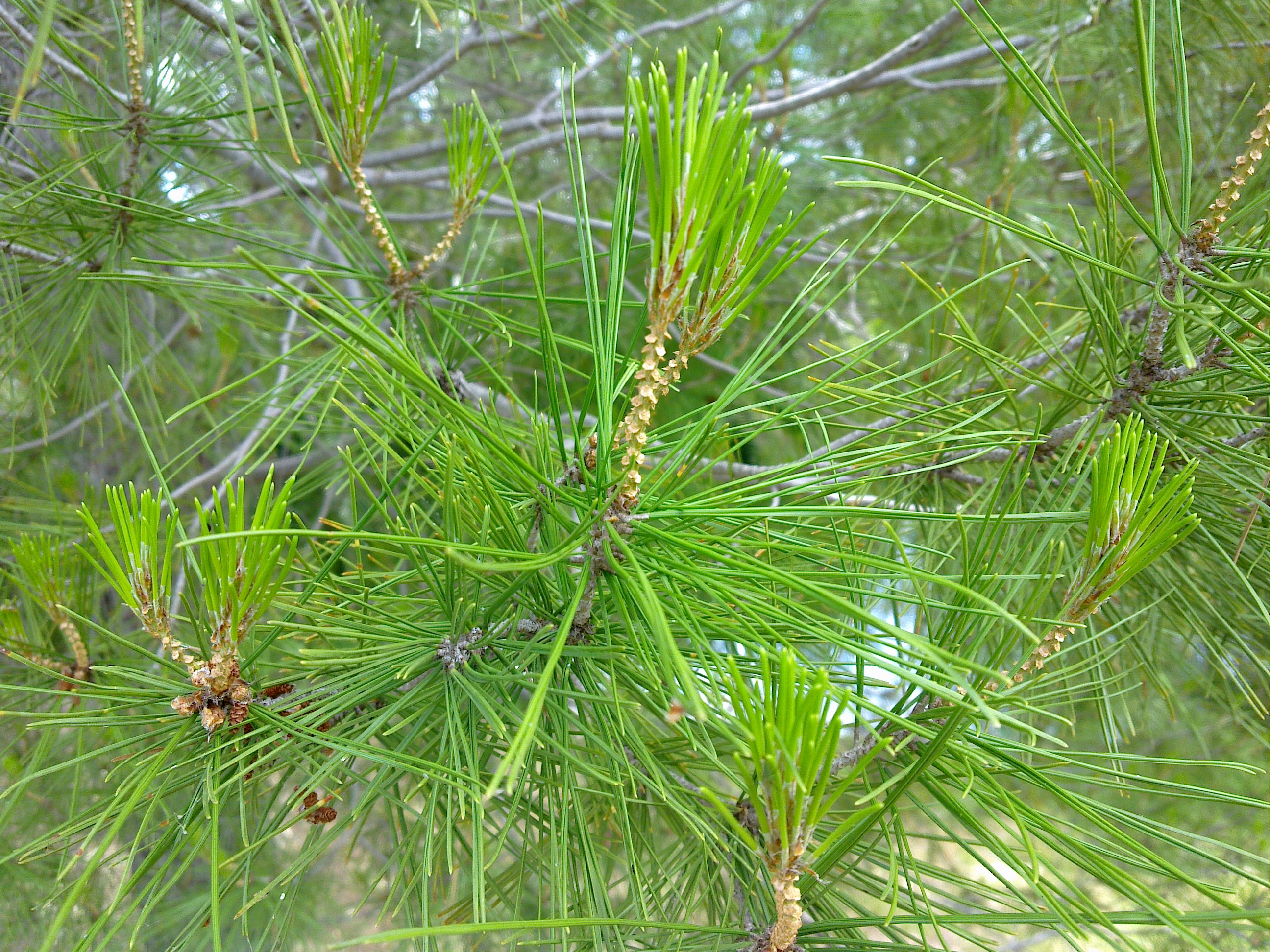 Leaves of a Lone Pine (Pinus brutia but sometimes regarded as Pinus halepensis) planted on 25 April 1970, by A. H. Seccombe D.C.M, next to the Wollundry Lagoon, Rotary Peace Monument and Nobel Peace Walk in Wagga Wagga, New South Wales.